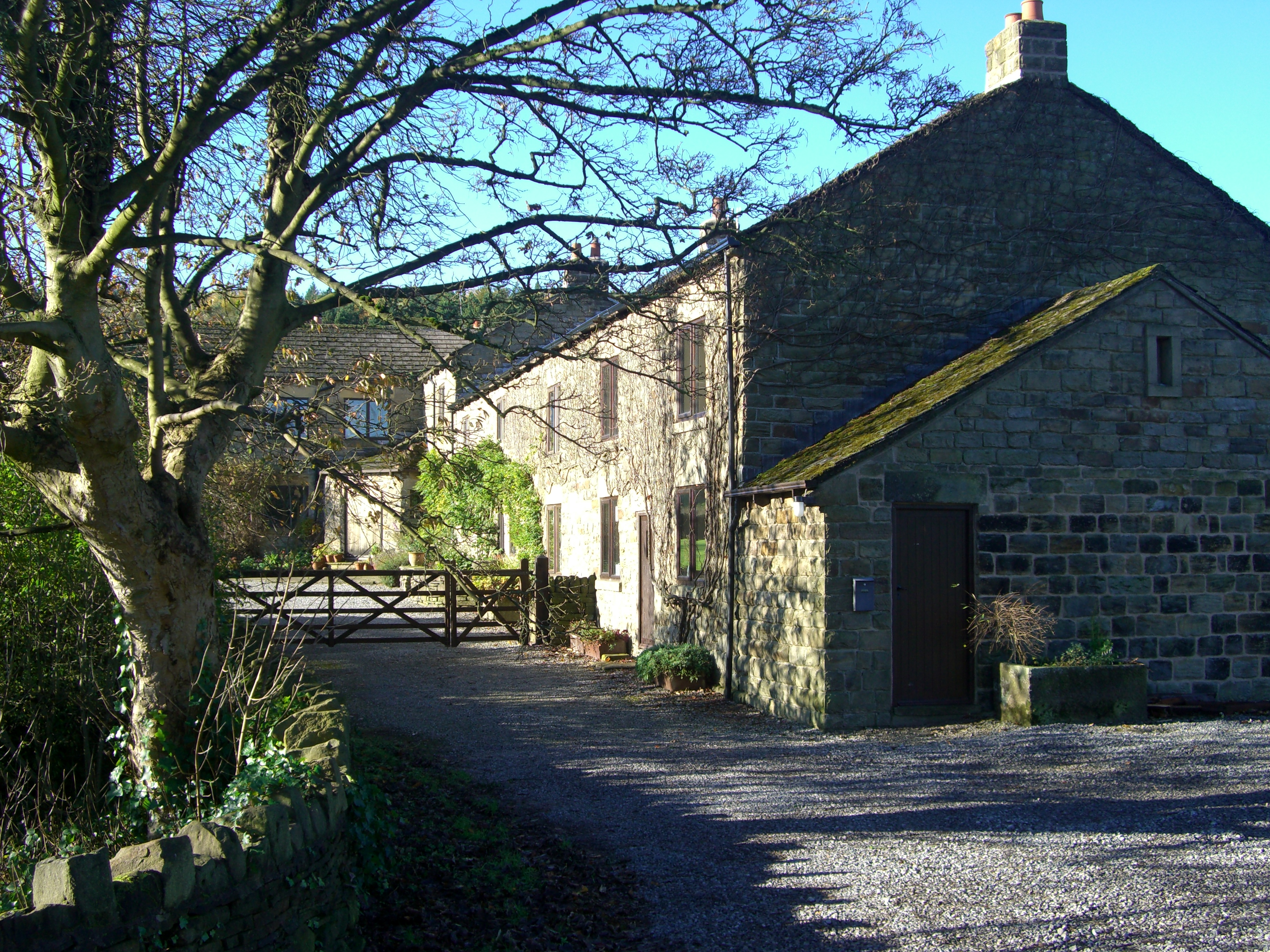 Load Brook Cottages in the hamlet of Load Brook, within the City of Sheffield, England. These are former miners cottages.